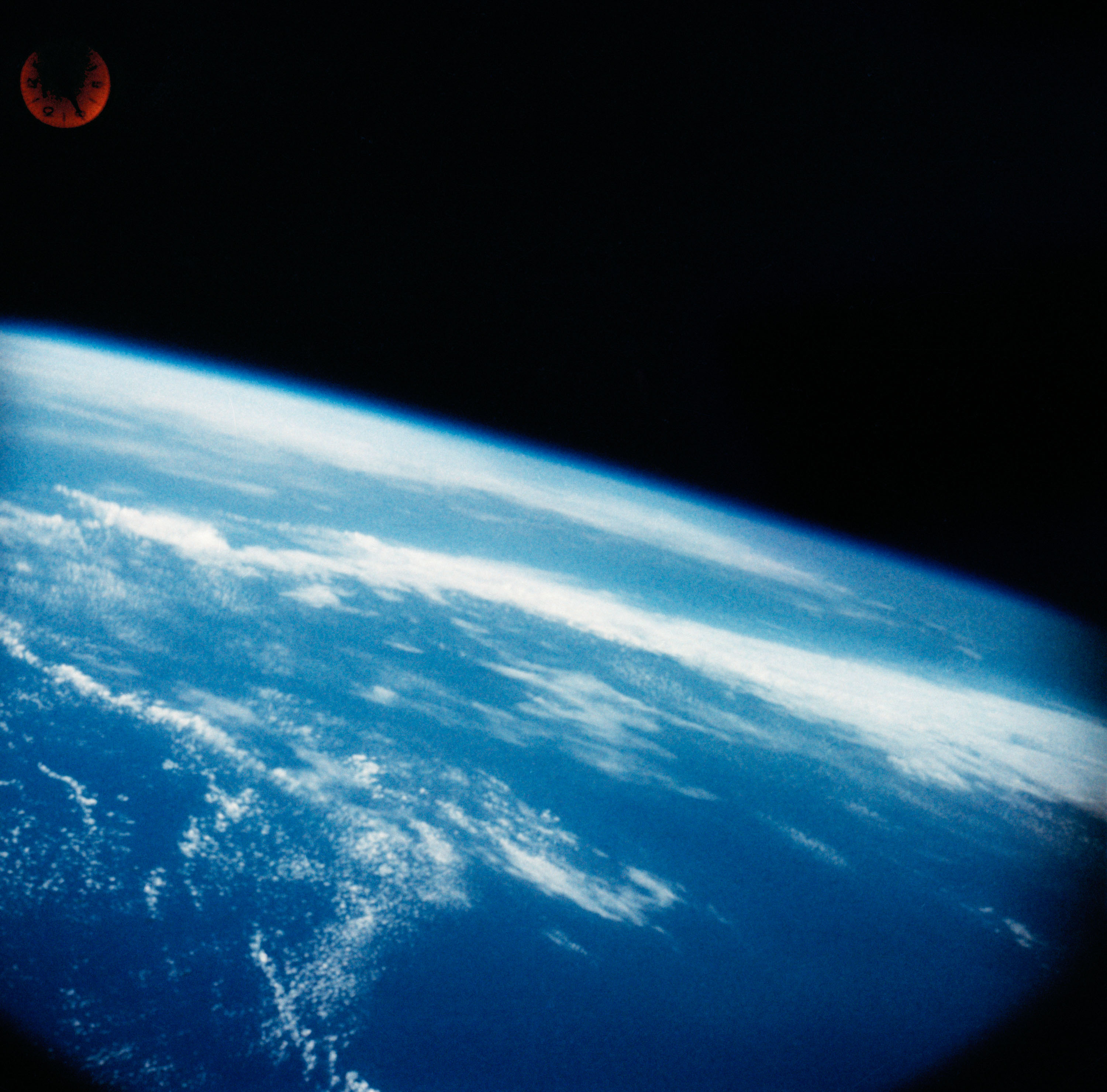 Mercury-Redstone 3 (MR-3) spaceflight Earth observations of a cloudy Earth surface.